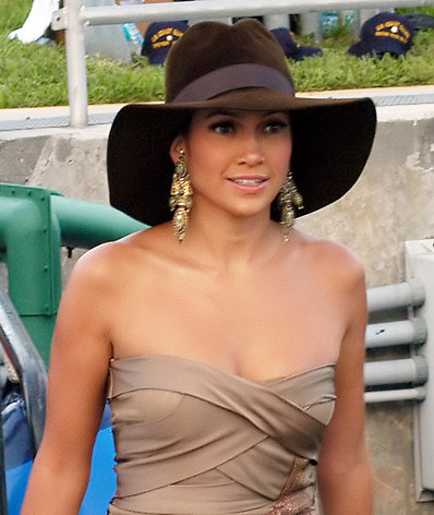 Jennifer Lopez at ISC Miami.